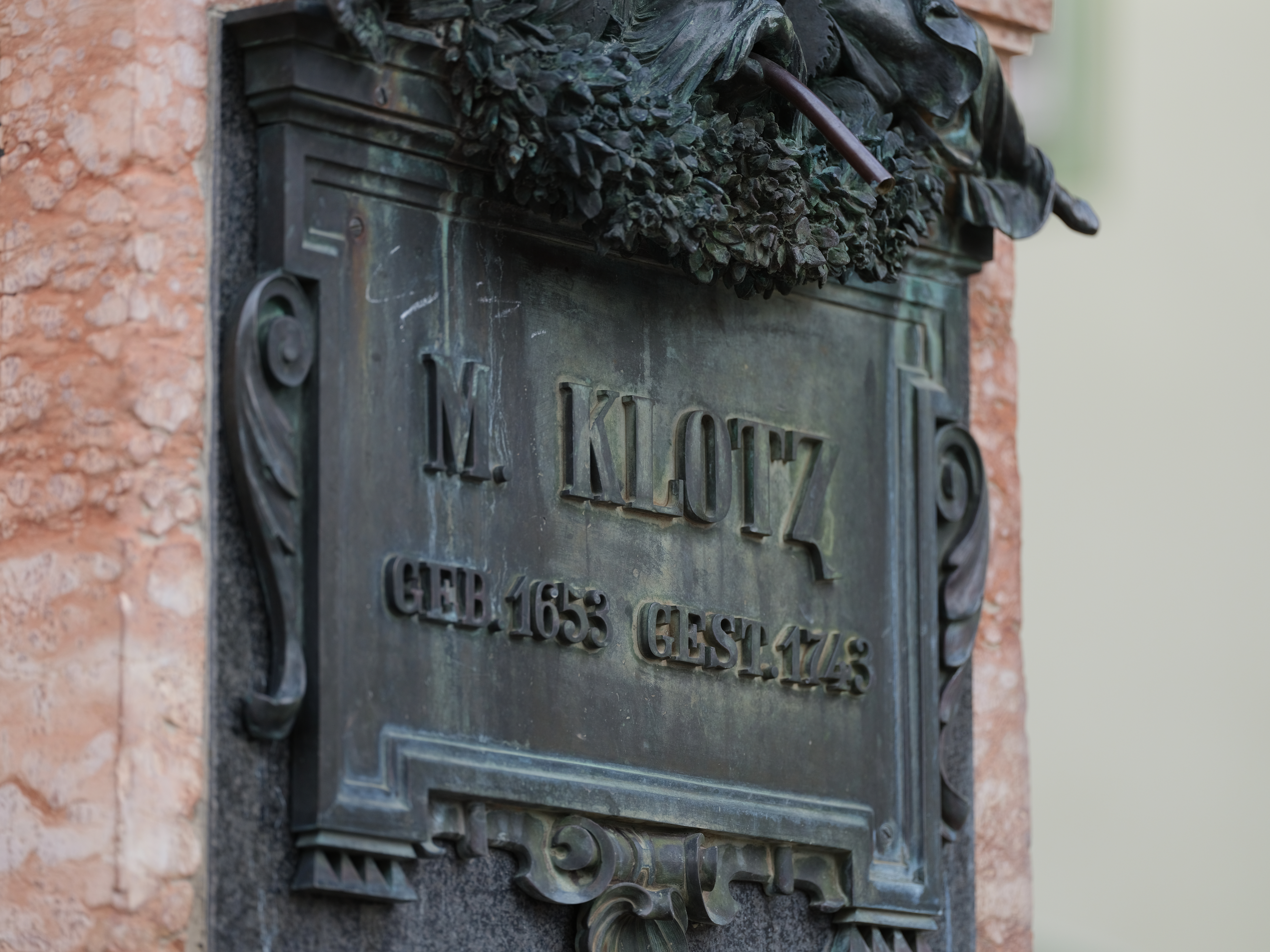 Inscription on the monument of the violin maker Matthias Klotz